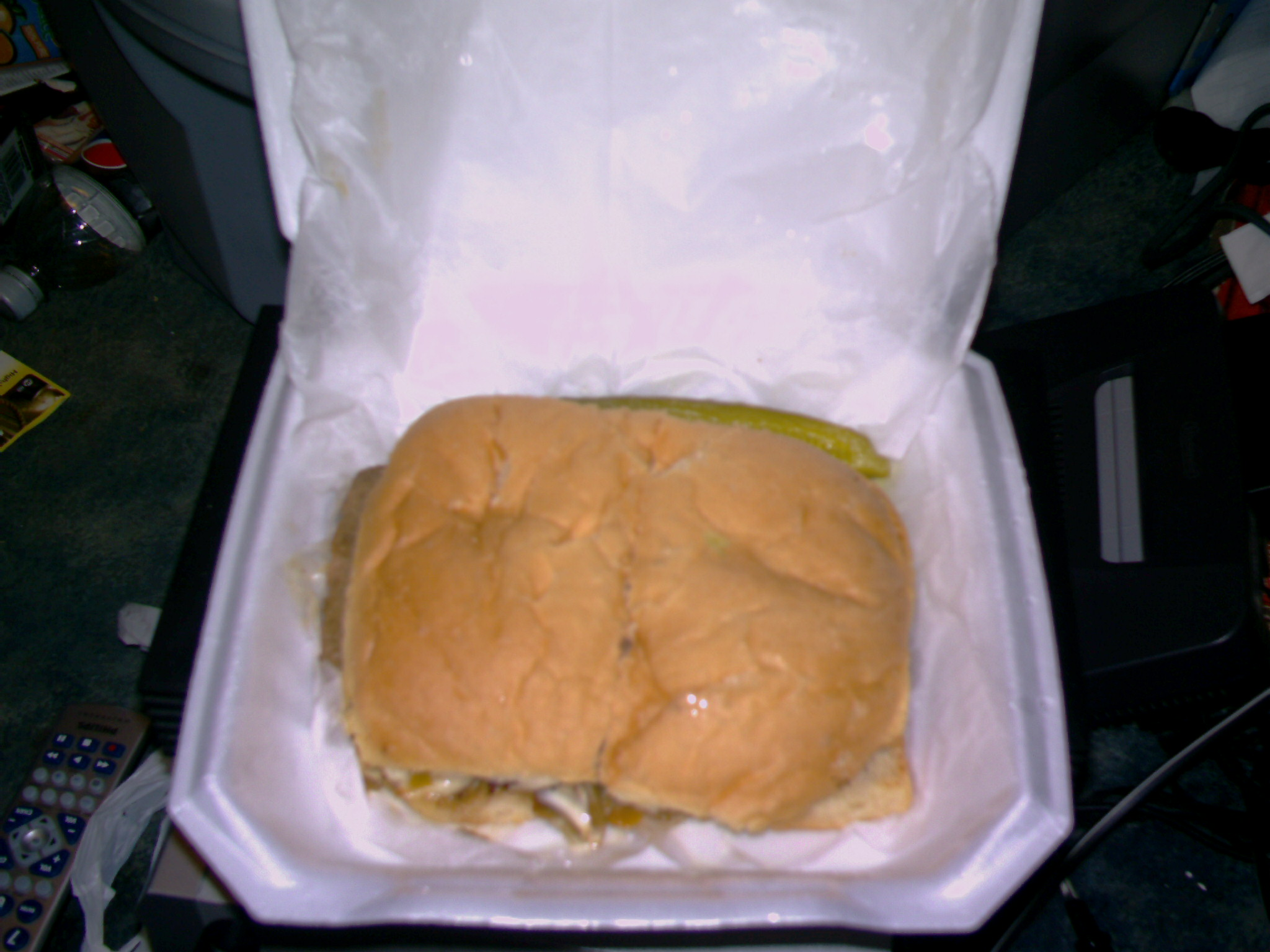 A Gutbuster sandwich from the Ranch House in Craigsville.